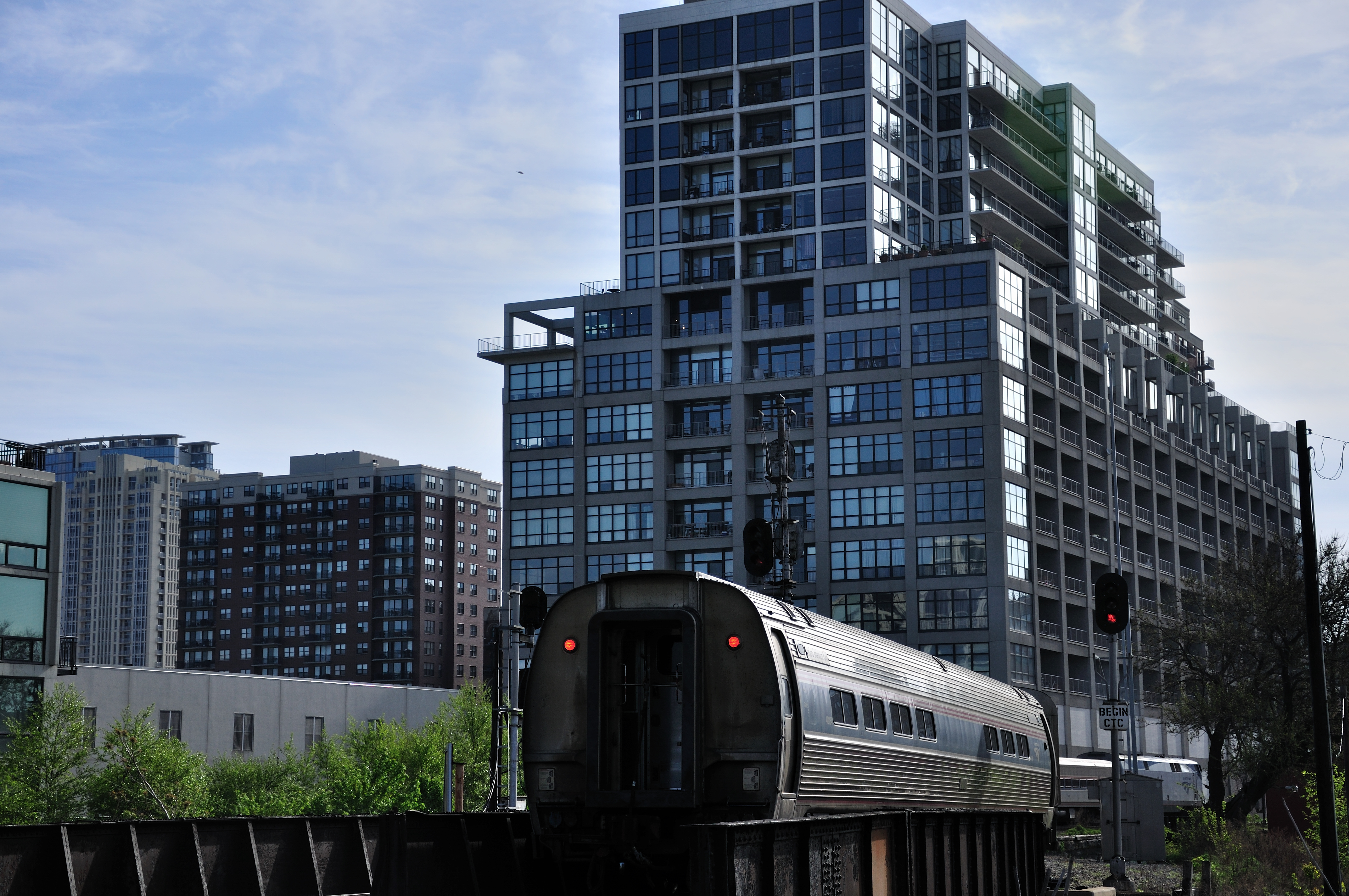 The Saluki takes the St. Charles Air Line (SCAL) heading towards the CN/IC.